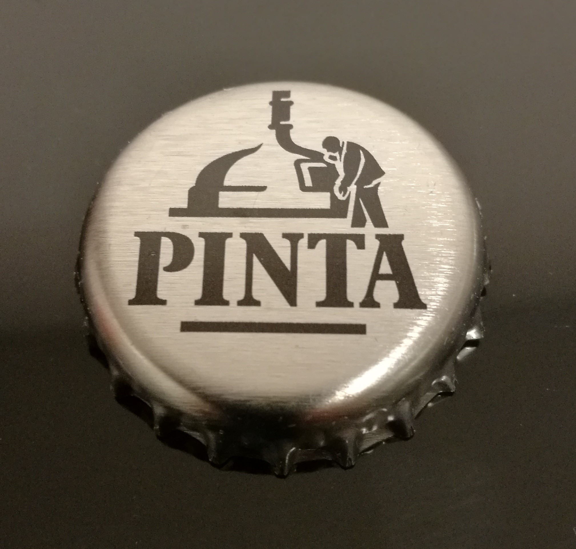 cap of bottle PINTA Brewery Poland